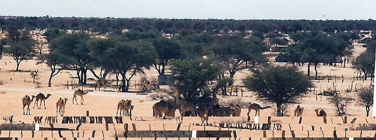 Domesticated camels grazing in Tshabong, Botswana. The town is the administrative centre of Kgalagadi District, in the Kalahari Desert, and the camels are used for transport, particularly by the police. Taken in mid-1995 on film.